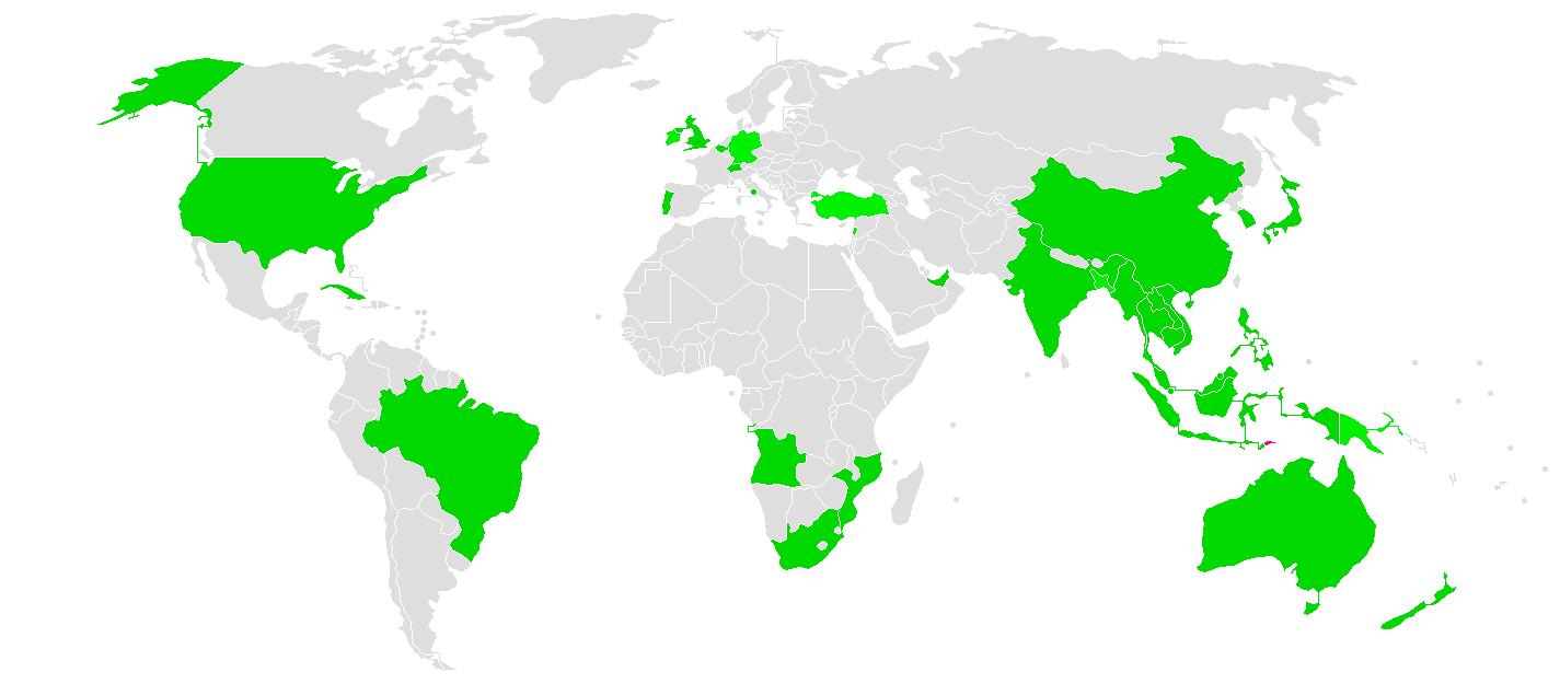 Map of countries with East Timorese diplomatic missions East Timor Embassy Honorary Consul